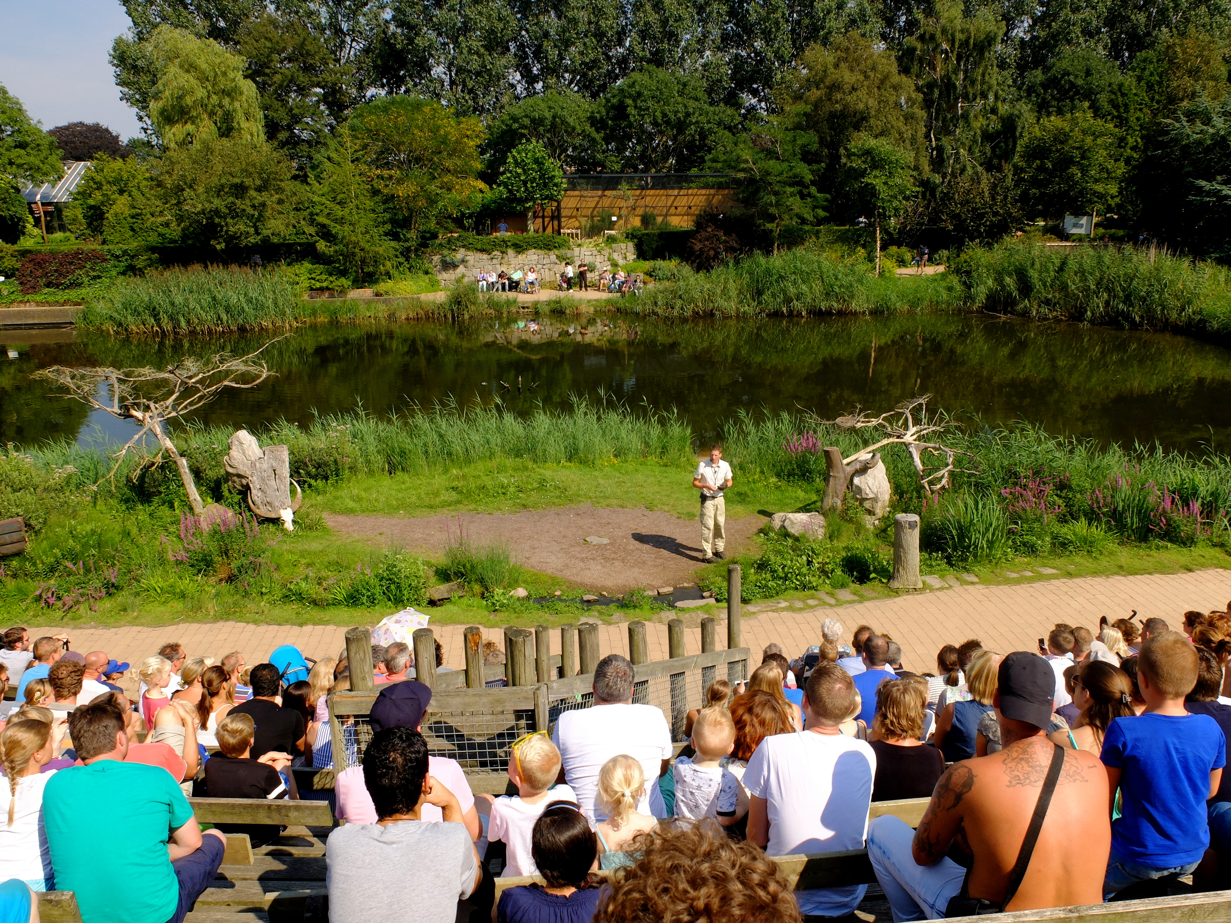 Dutch bird park Avifauna, Alphen aan den Rijn. Bird show